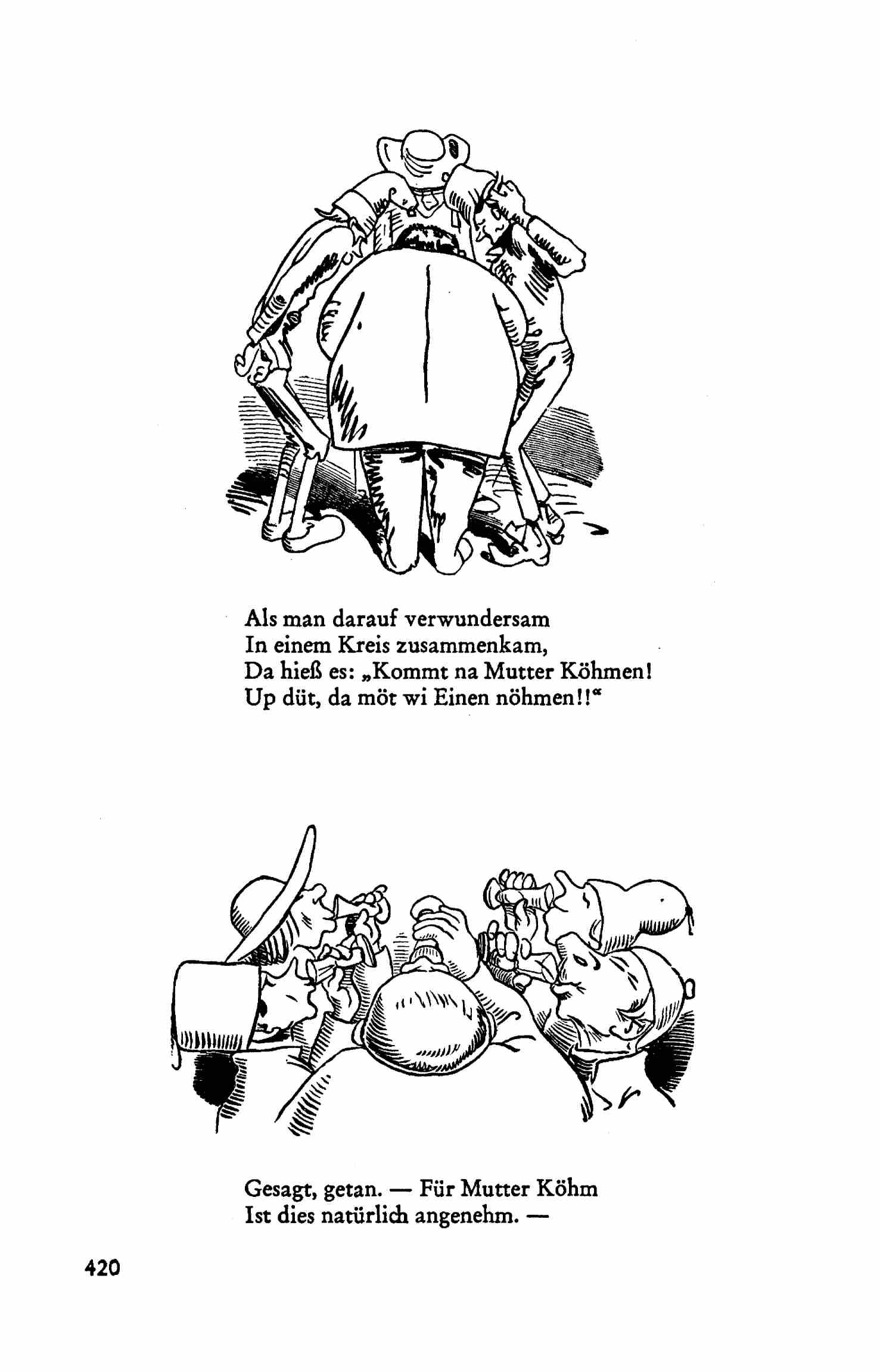 This is a scan of the historical document